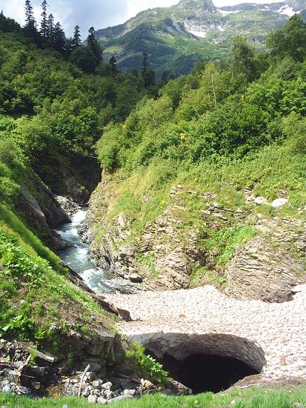 River Urushten in Western Caucasus